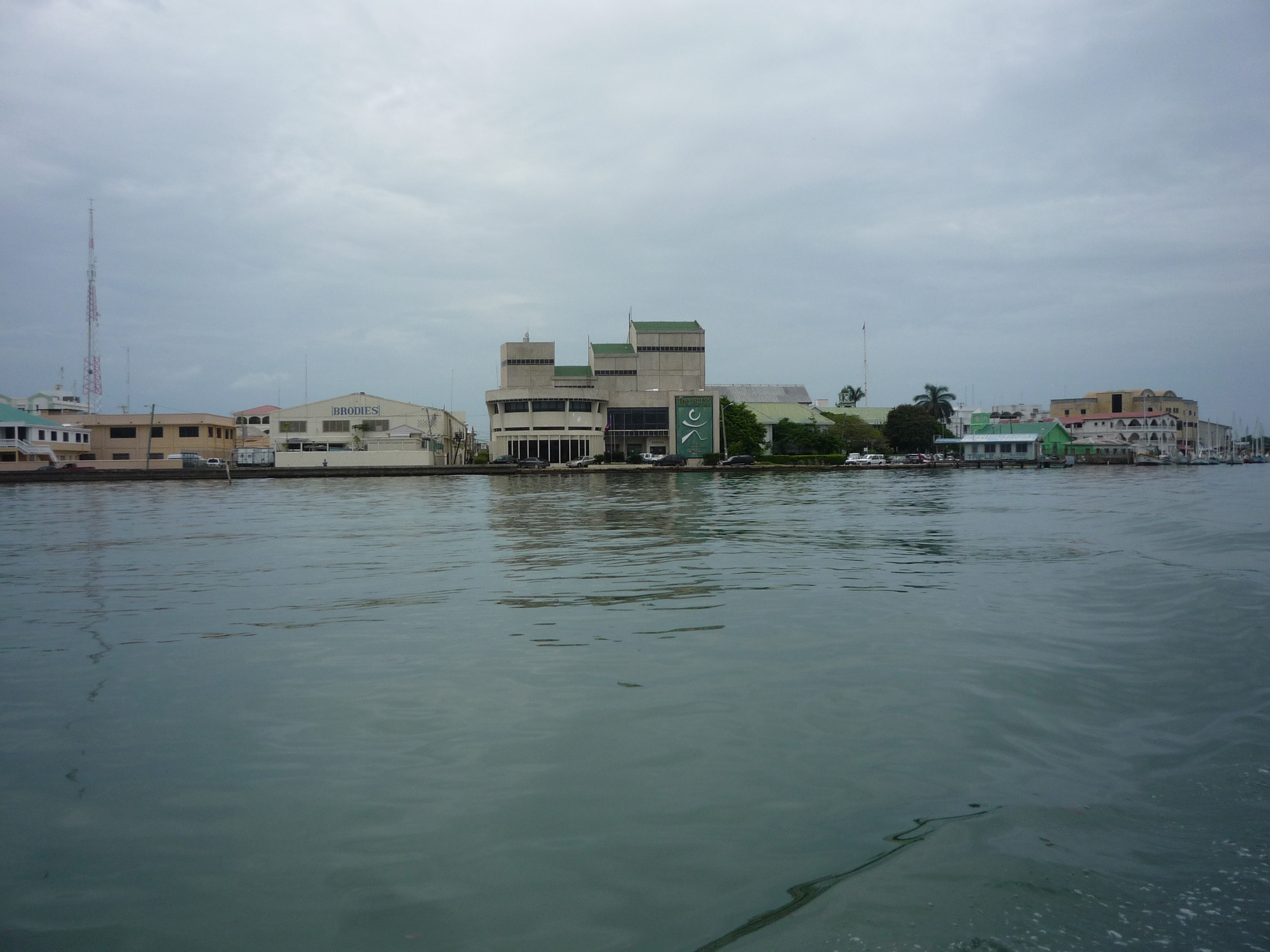 Waterfront, Belize City, 2009. "The Bliss Institute" is the tall building complex. To the left is "Brodies", long landmark supermarket/misc store.